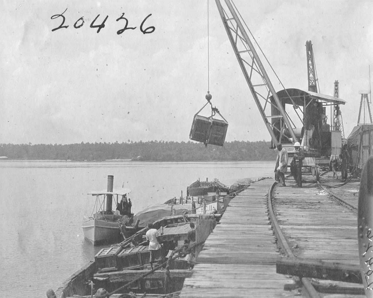 Pier at Mombassa Kilindini Harbor. Man using large mechanical crane to load wooden crates of specimens that were collected on expedition into boats. 1906. Name of Expedition: British East Africa Participants: Carl Akeley Expedition Start Date: October 8, 1905 Expedition End Date: December 21, 1906 Purpose or Aims: Zoology Mammals Location: Africa, Kenya, Mombassa, Killichin Harbor Original material: 4x5" Interpositive film Digital Identifier: CSZ20426 Learn more about The Field Museum's Library Photo Archives.